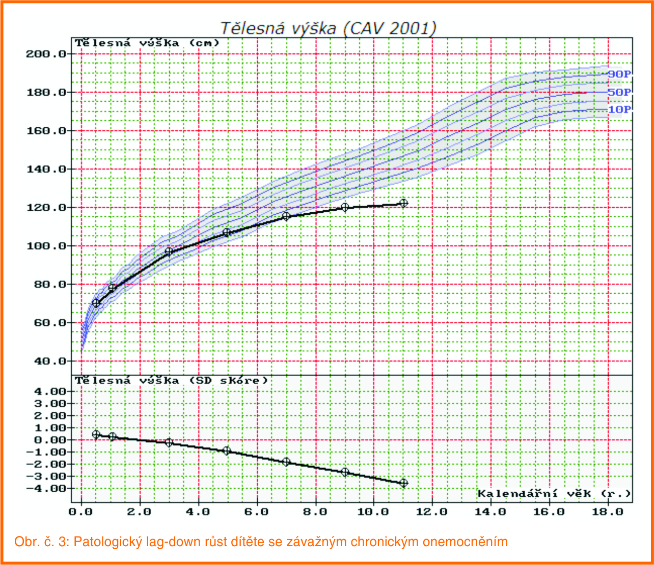 Patologický lag-down